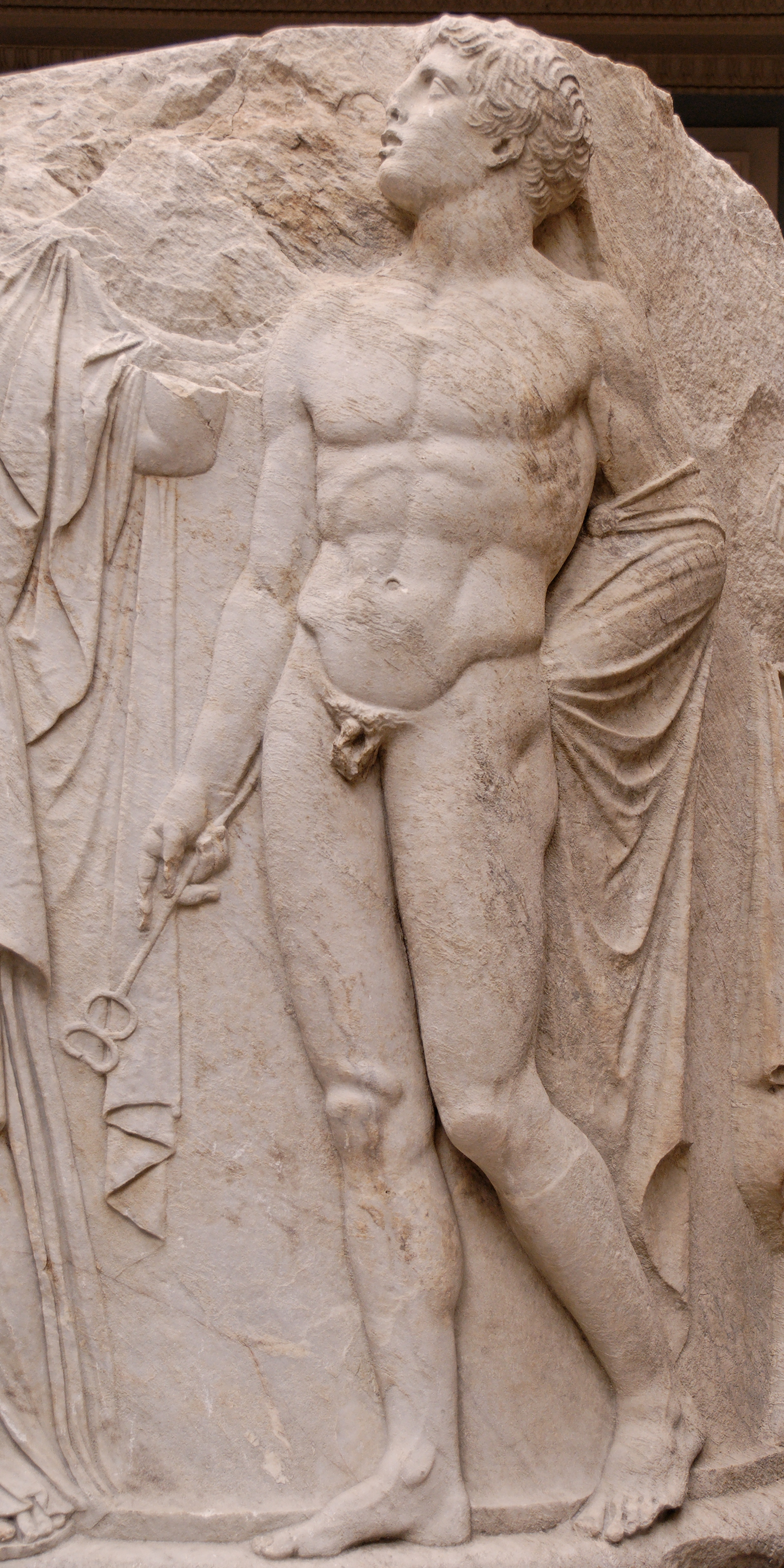 Hermes Psychopompos bearing the caduceus and wearing a cloak. Detail of a sculptured marble column drum from the Temple of Artemis at Ephesos, ca. 325-300 BC. Found at the south-west corner of the temple.